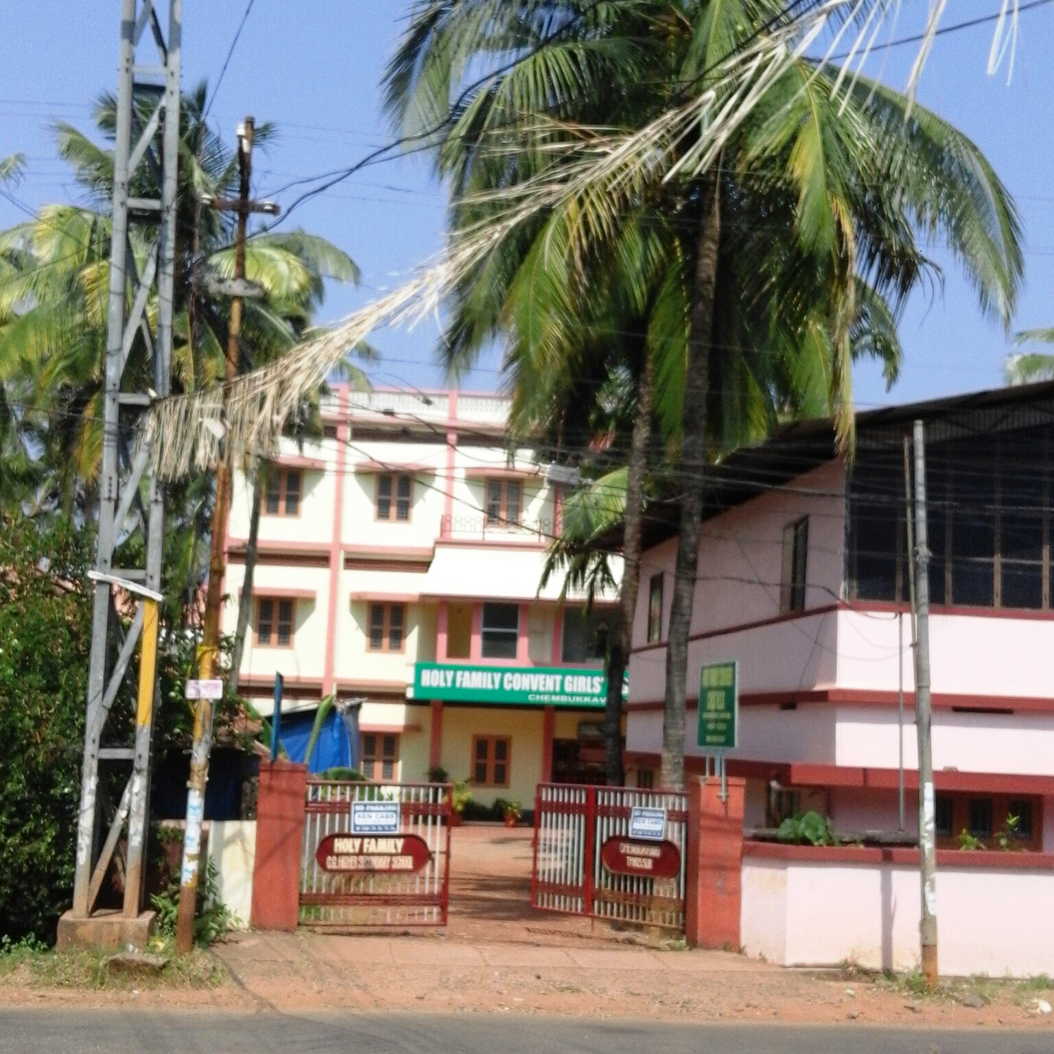 Thrissur City, Kerala, India